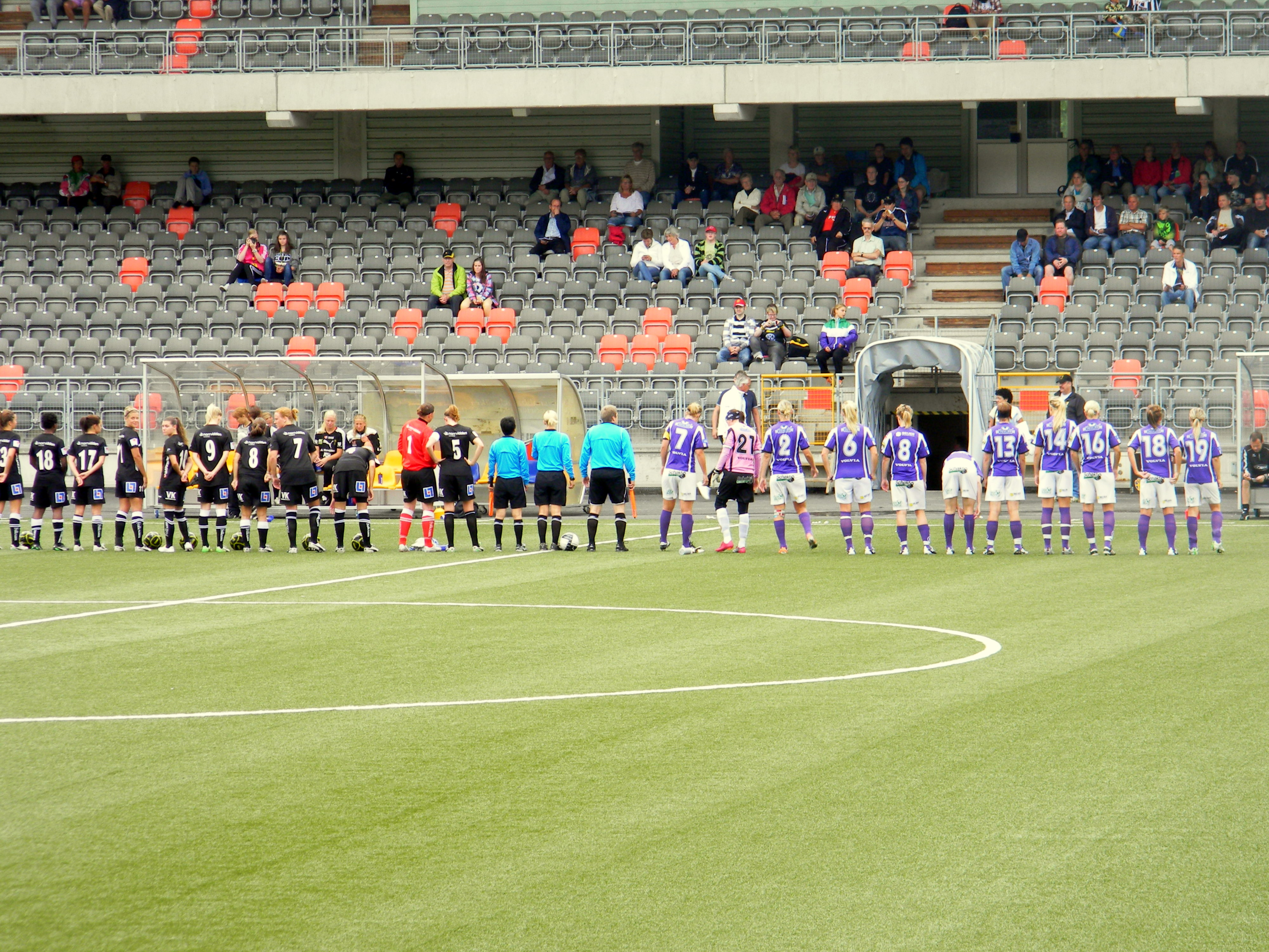 Minute's silence in honour of those killed in the bomb blast and shooting in Oslo on July 22